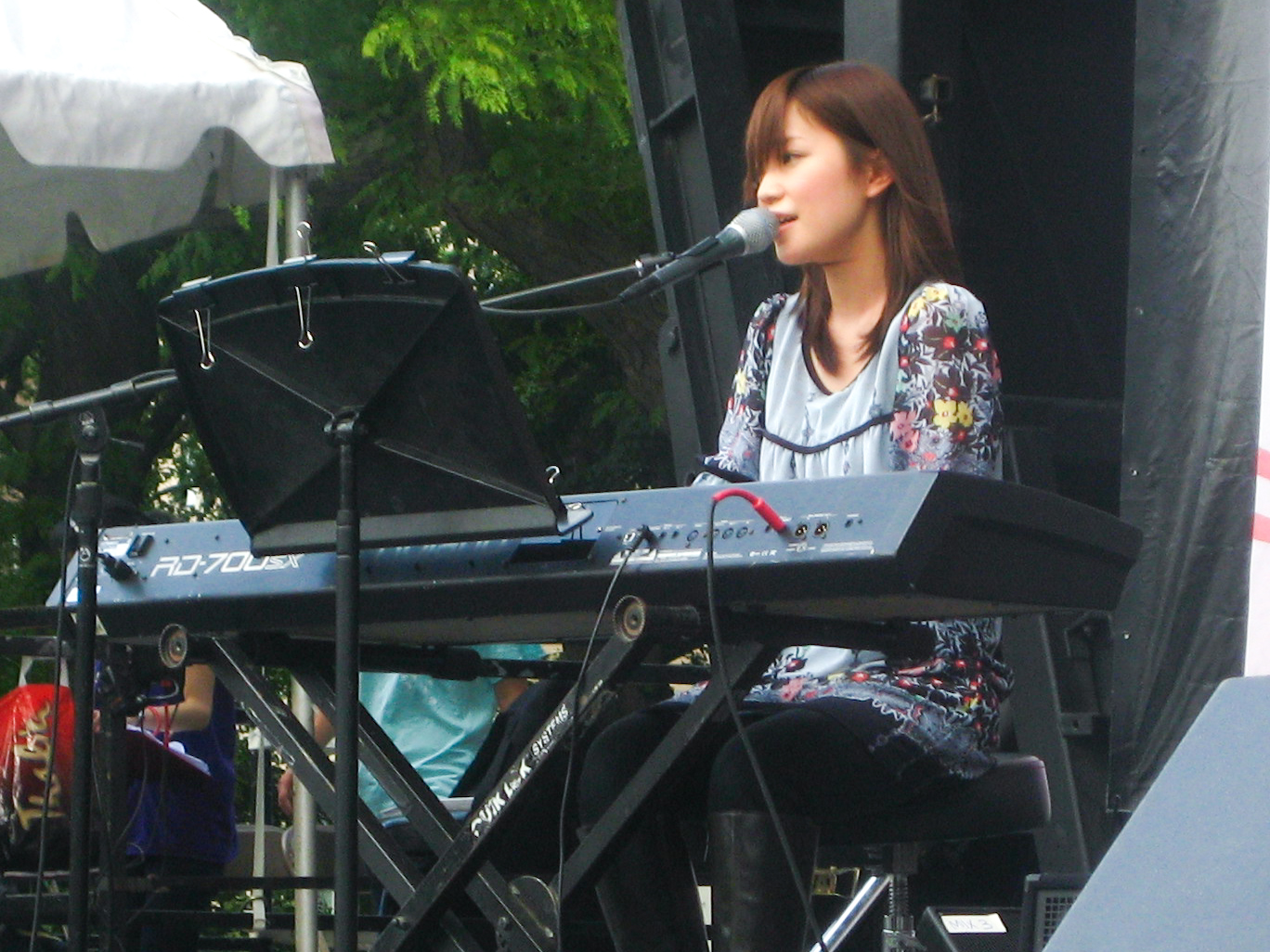 Ai Kawashima live at Japan Day in Central Park, New York City.